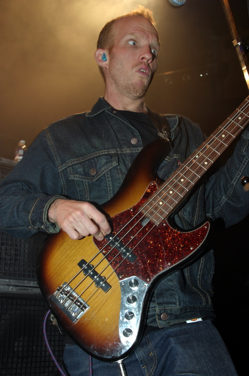 Mike Dean with Corrosion of Conformity Live at Reds, Edmonton